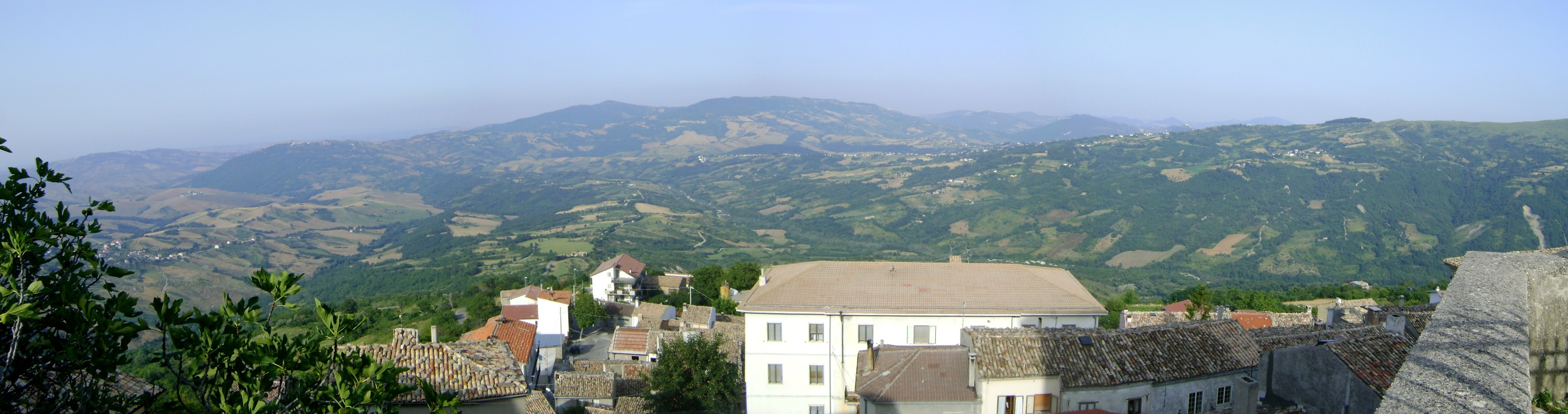 View of Montazzoli, province of Chieti, Abruzzo